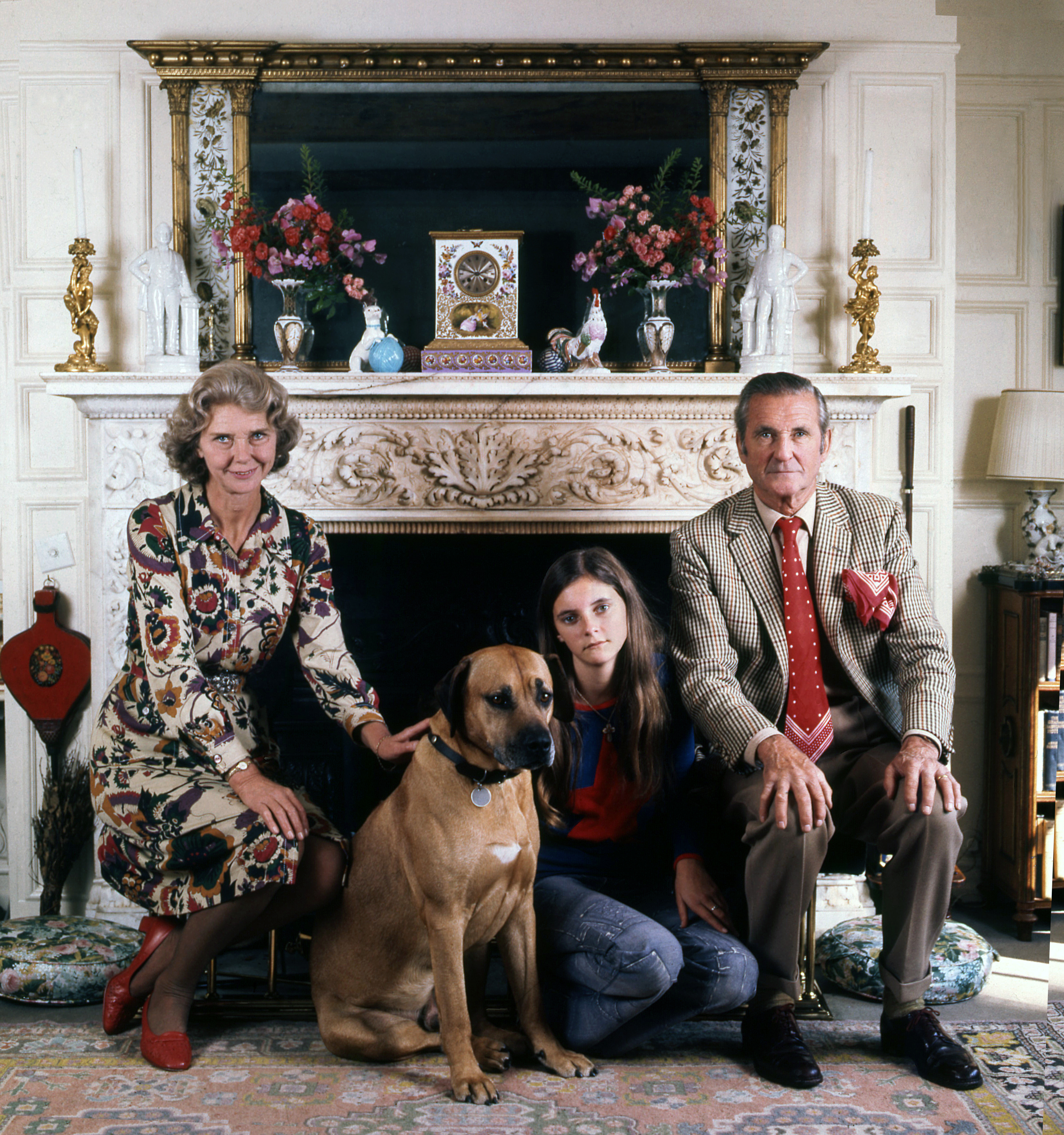 Henry Thynne 6th Marquess of Bath with second wife Virginia & daughter Lady Slivia. Taken at Jobs Mill, Wiltshire.